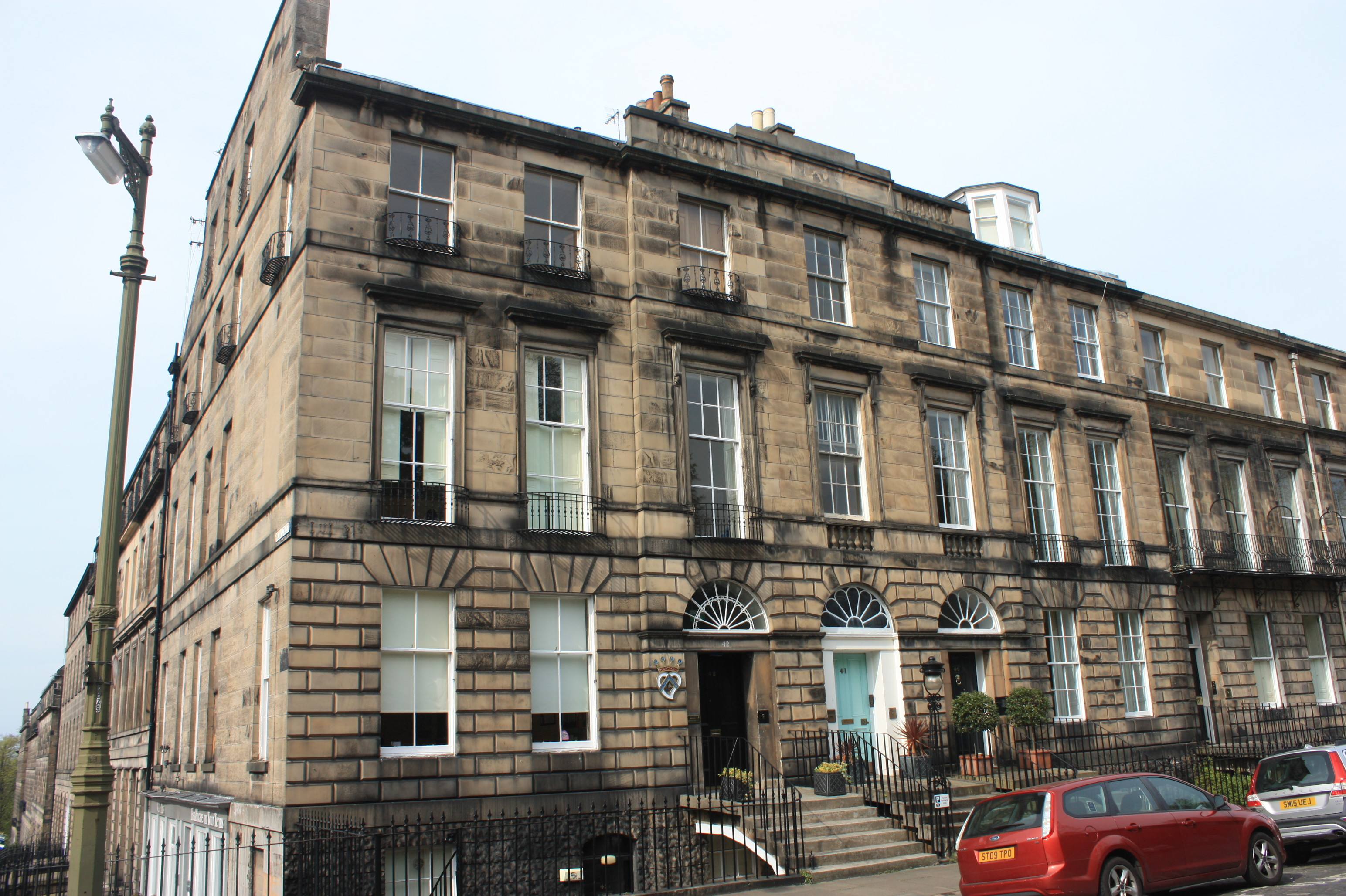 40, 41, 42 Heriot Row, Edinburgh